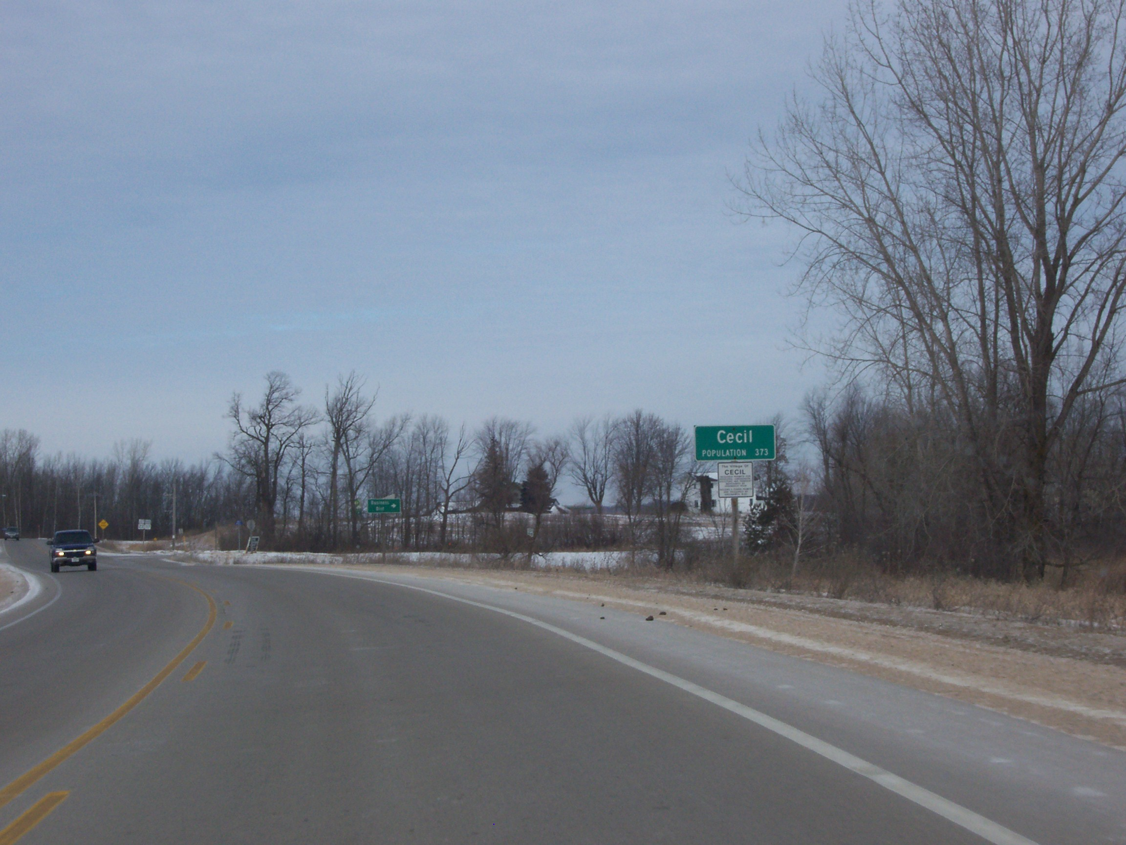 The DOT sign for Cecil, Wisconsin, USA. Travelly northbound on Wisconsin Highway 117, near its north terminus. Taken February 11, 2007 by myself.